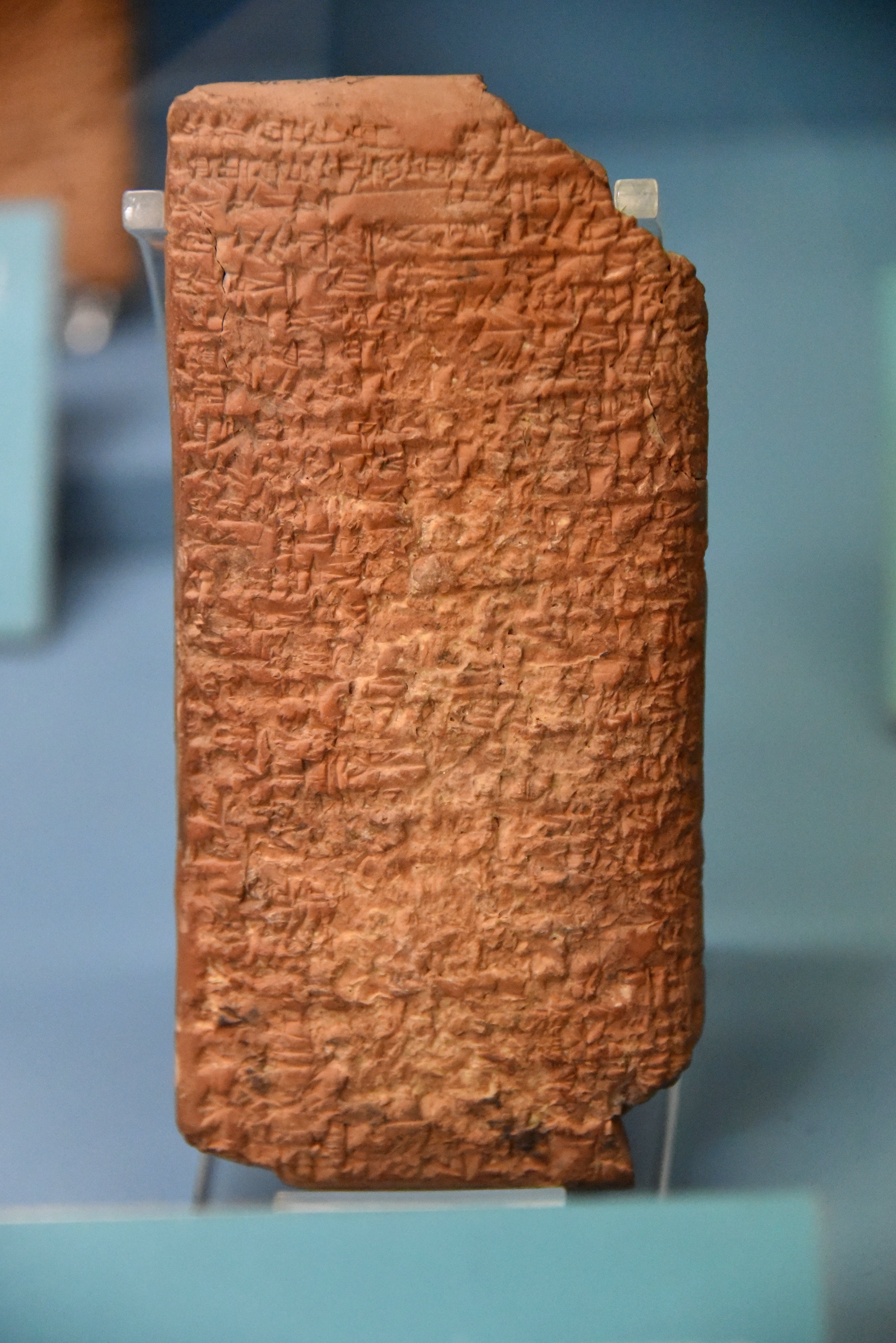 The letter of Ludingirra (Lu-diĝira) to his mother. Terracotta tablet. From Nippur, Southern Mesopotamia, Iraq. Old-Babylonian Period, c. 1700 BCE. Ancient Orient Museum, Istanbul.